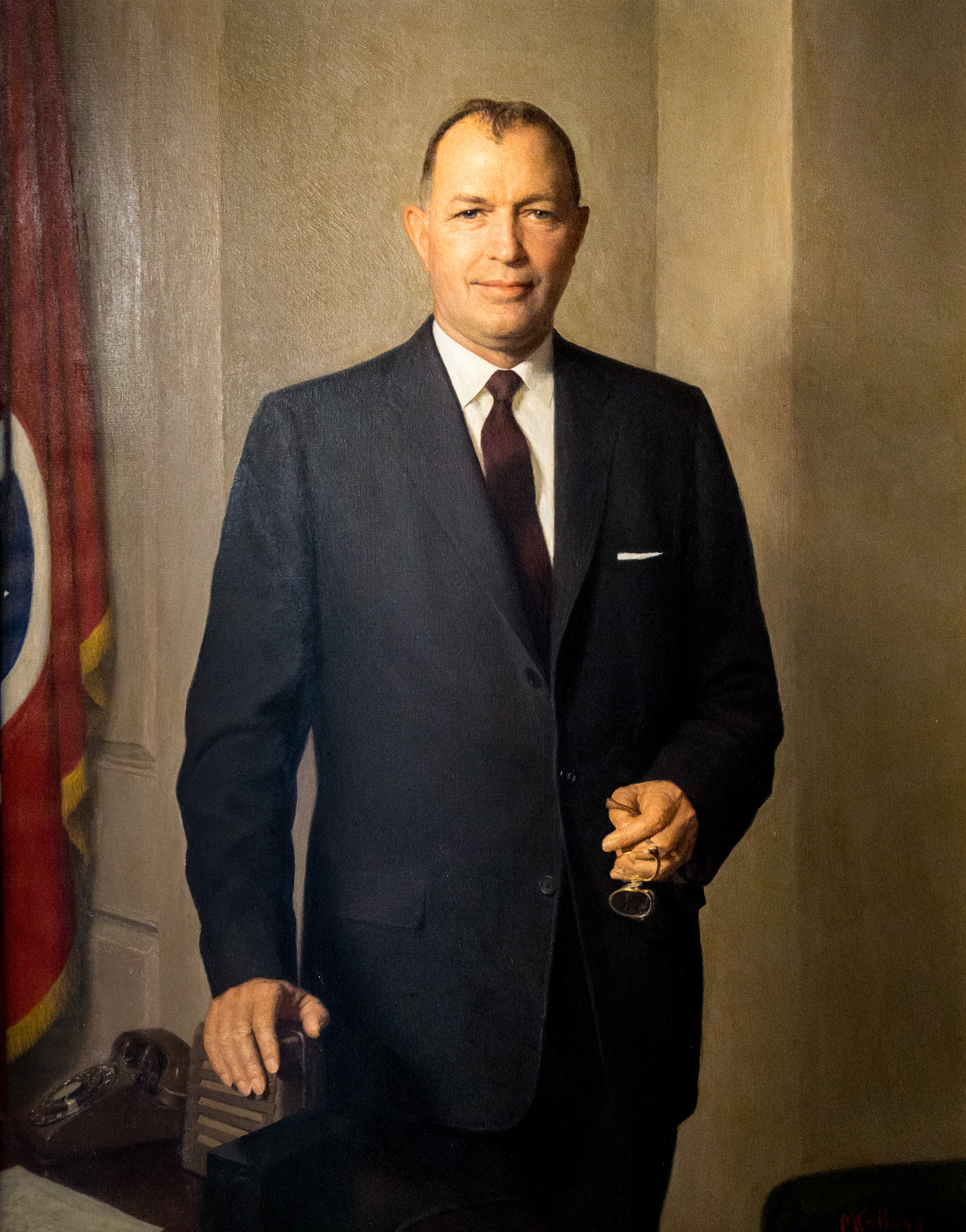 Tennessee Governor Earl Buford Ellington. Official Portrait in the Tennessee State Capitol, Nashville, TN.